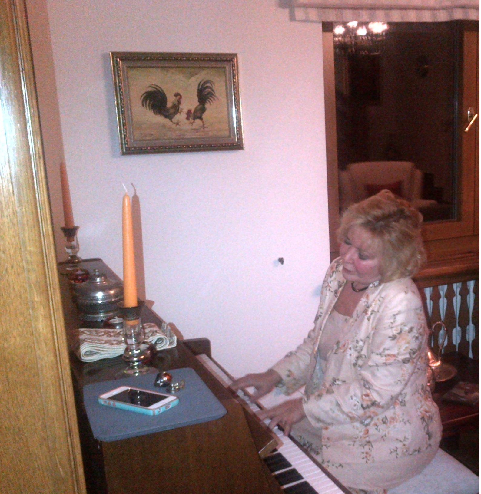 Gülsin Onay practicing.